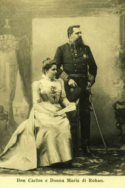 Princess Marie Berthe of Rohan, Duchess of Madrid and Carlos de Bourbon